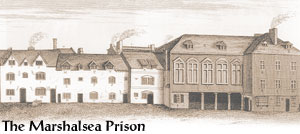 Little Dorrit. The Marshalsea Prison